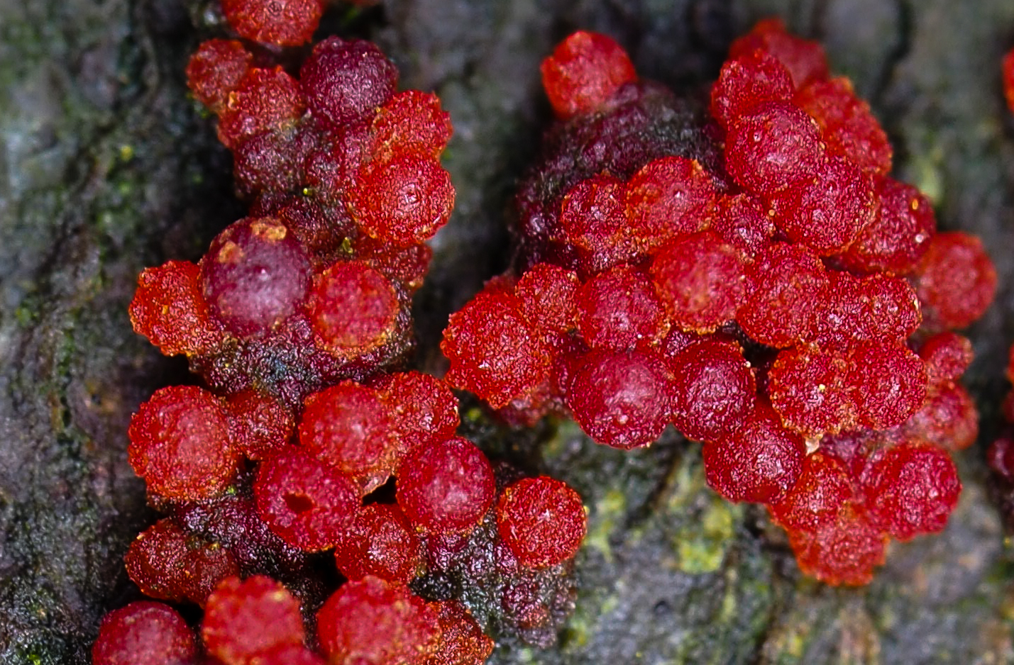 Nectria cinnabarina (Tode ex Fr.) Fr. Image location: Los Trancos Preserve, Palo Alto, California, USA On eucalyptus branches. Recognized by sight For more information about this, see the observation page at Mushroom Observer.